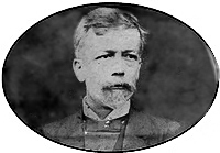 José Vieira Machado da Cunha, I baron of Rio das Flores